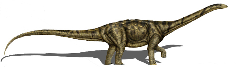 titanosaurian sauropod dinosaur from the Late Cretaceous Period